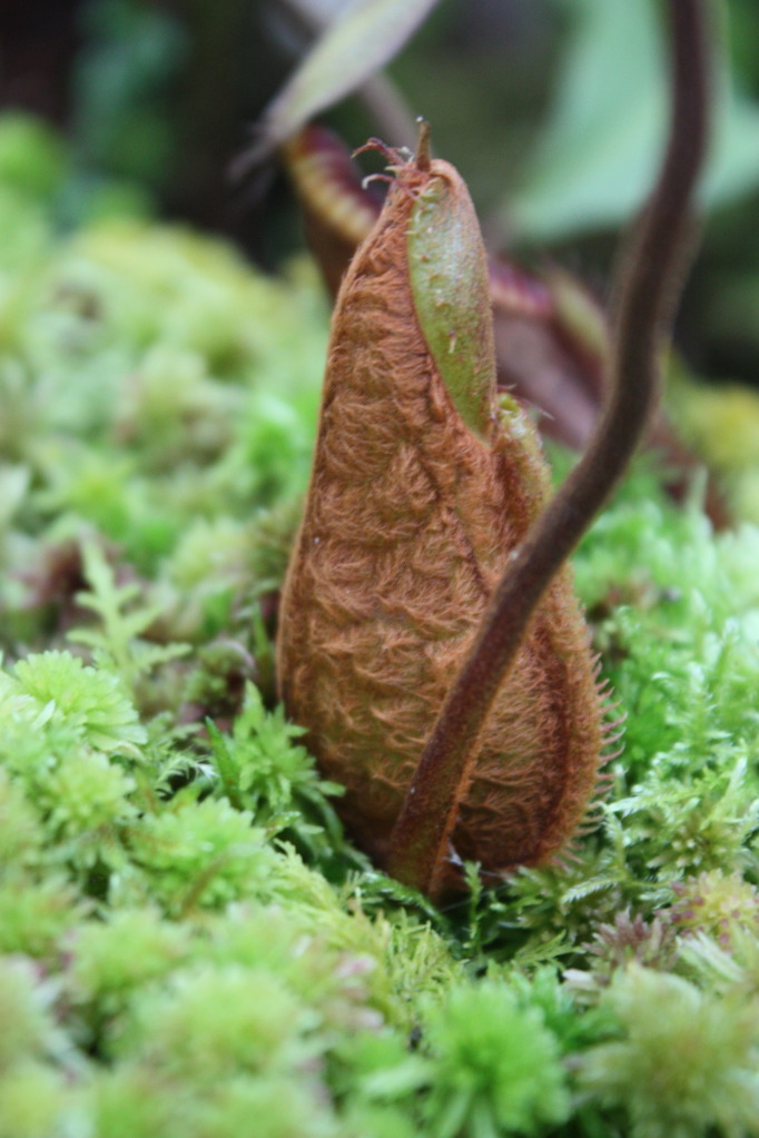 Developing pitcher of a particularly hairy variant of Nepenthes hamata. Cultivated plant grown from wild collected seeds.